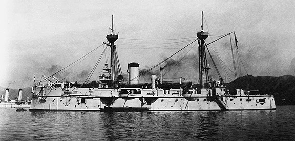 Japanese 2nd rate battleship, then coastal defence battleship Fuso, after early 1890s reconstruction